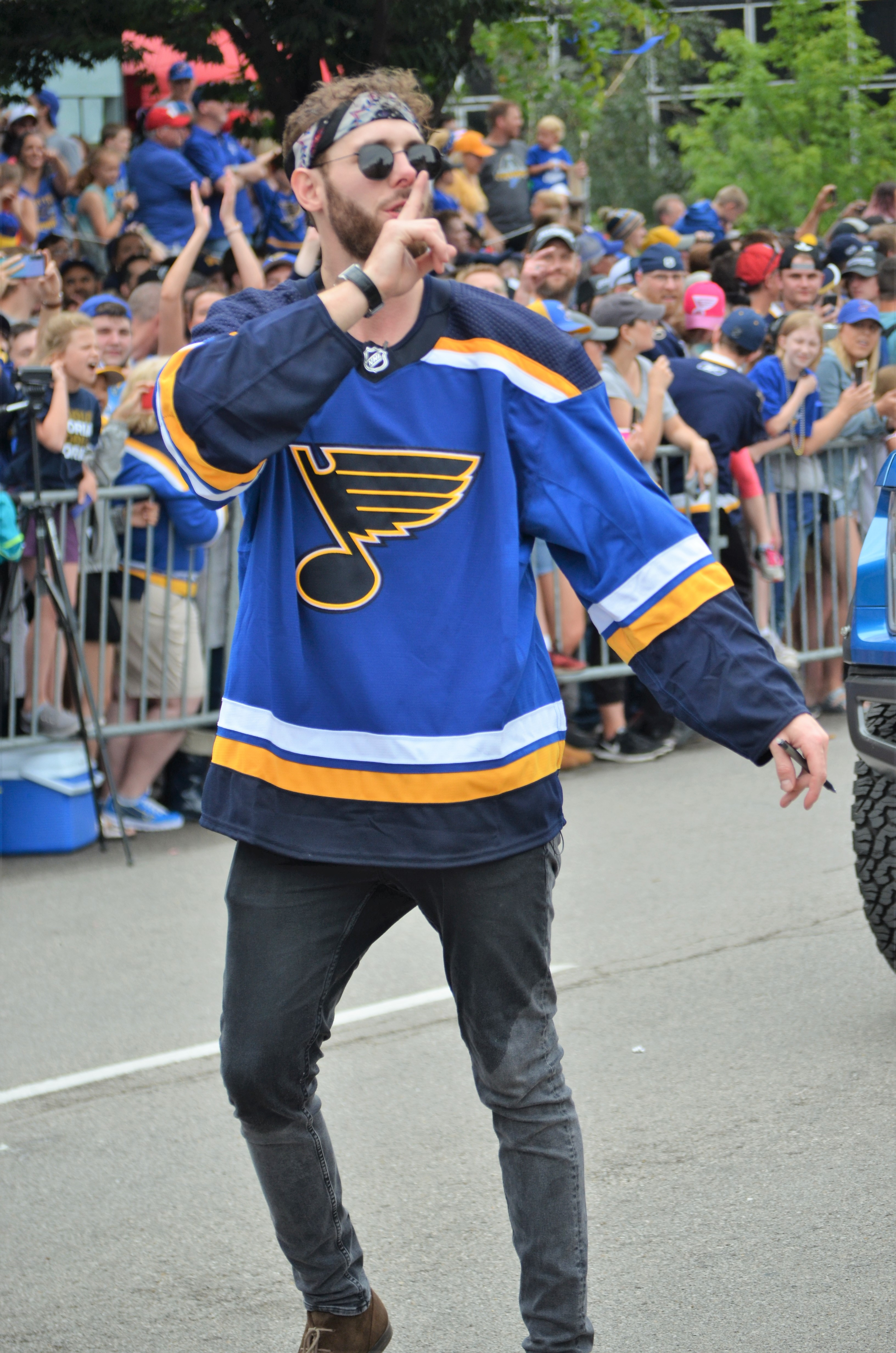 Joel Edmundson Quieting The Crowd